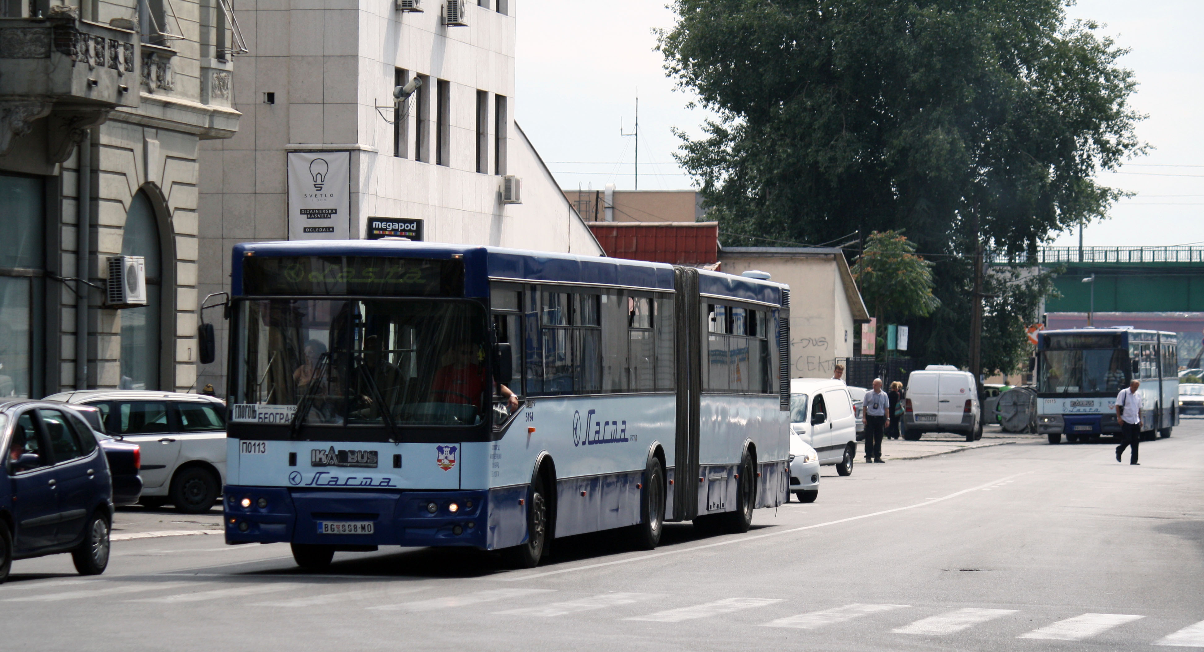 Ikarbus IK 206 and IK-201 suburban buses of Lasta Beograd bus operator near Lasta bus station.